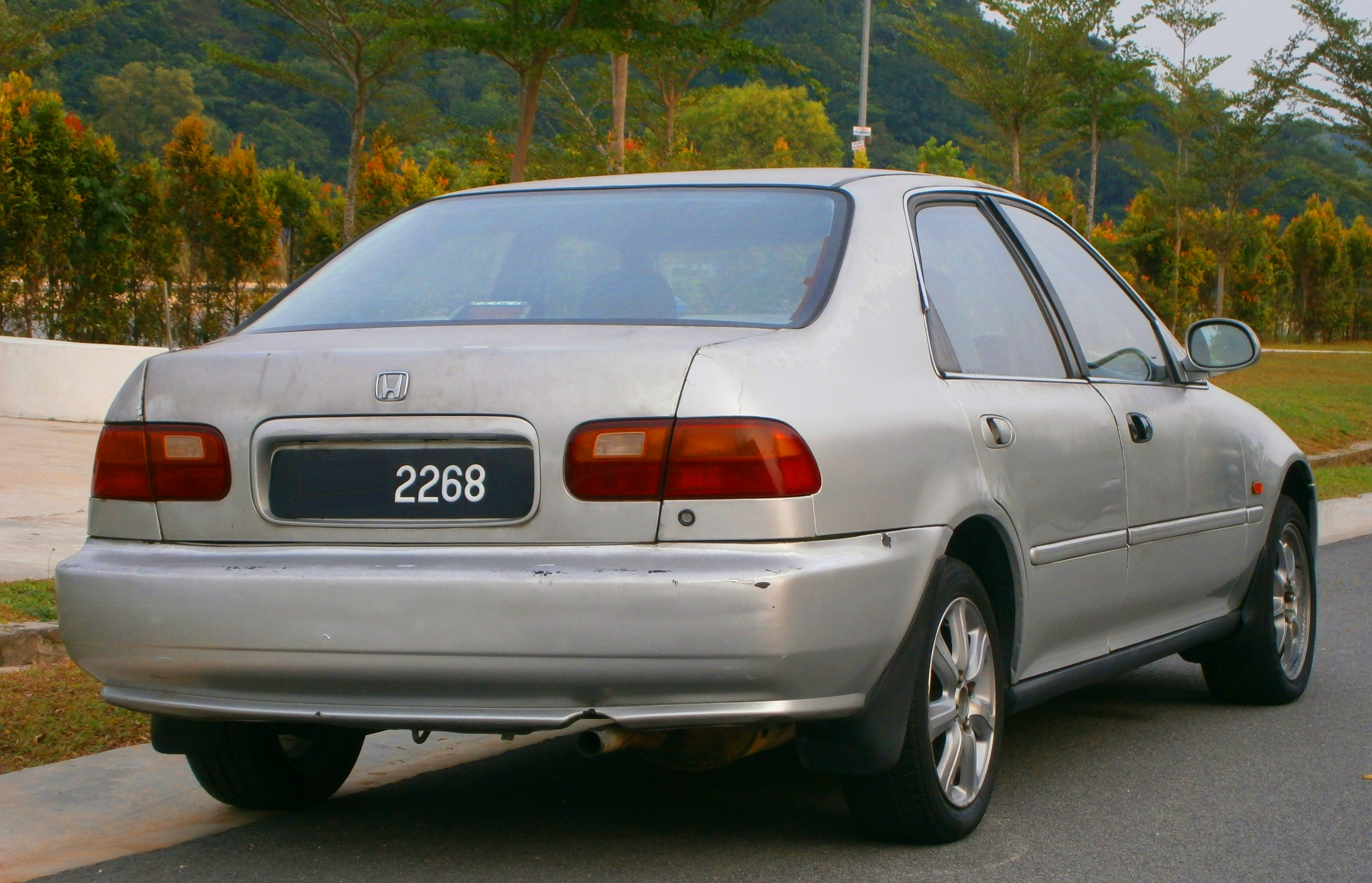 1992 Honda Civic EH5 1.6 saloon in Puchong, Malaysia.Designed & Assembled in Japan Note : This Civic variant for the Malaysian market was offered with premium features (considering its age), including all-round power windows, power-folding mirrors, ABS and a driver's airbag. The alloy rims pictured are aftermarket equipment.